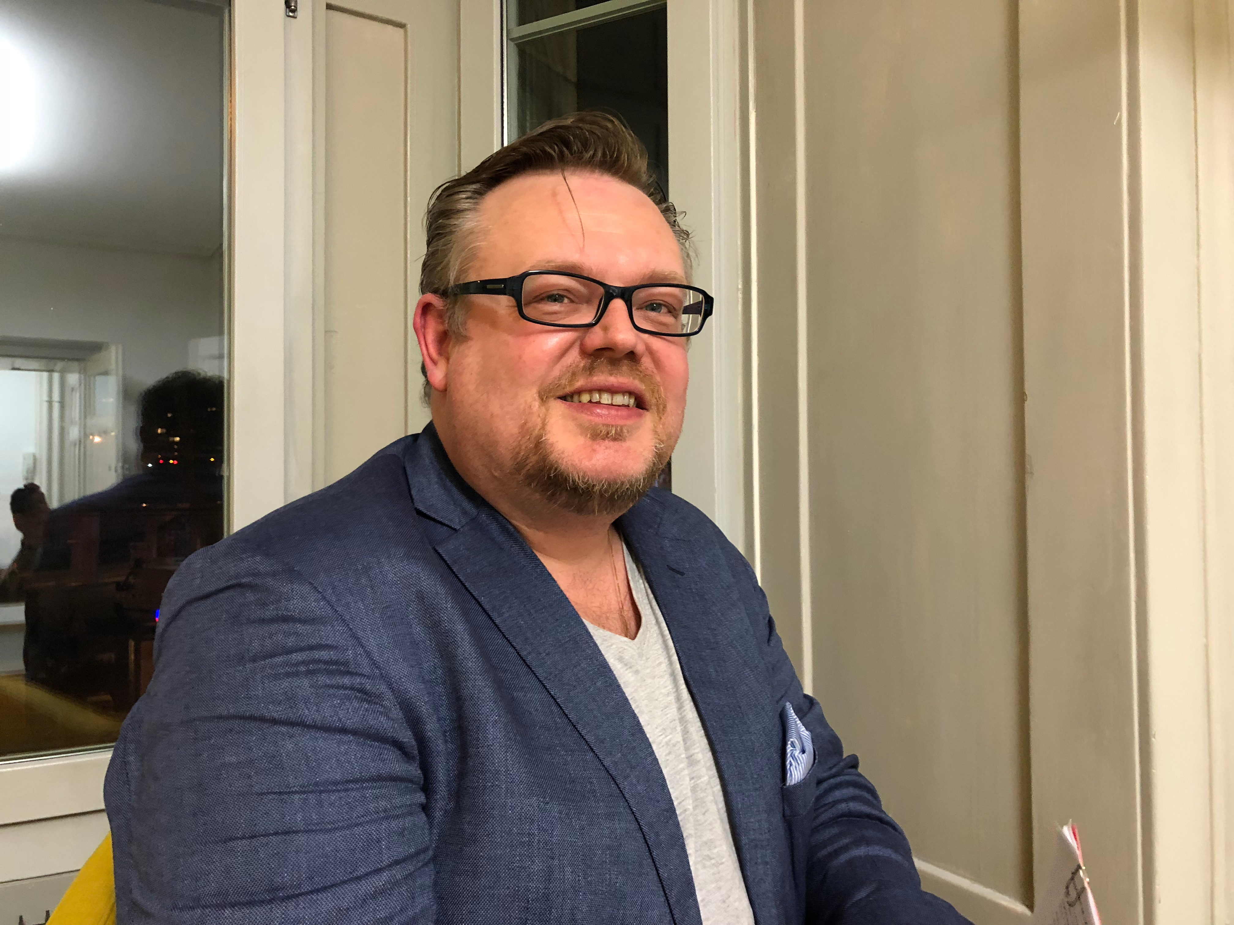 Swiss author Marc P Sahli